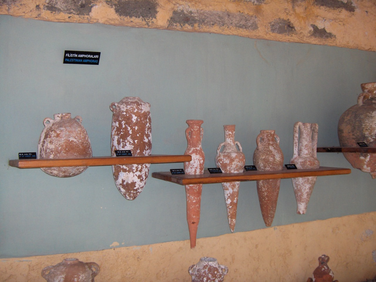 Palestinian amphoras, St. Peter's castle; Bodrum, Turkey